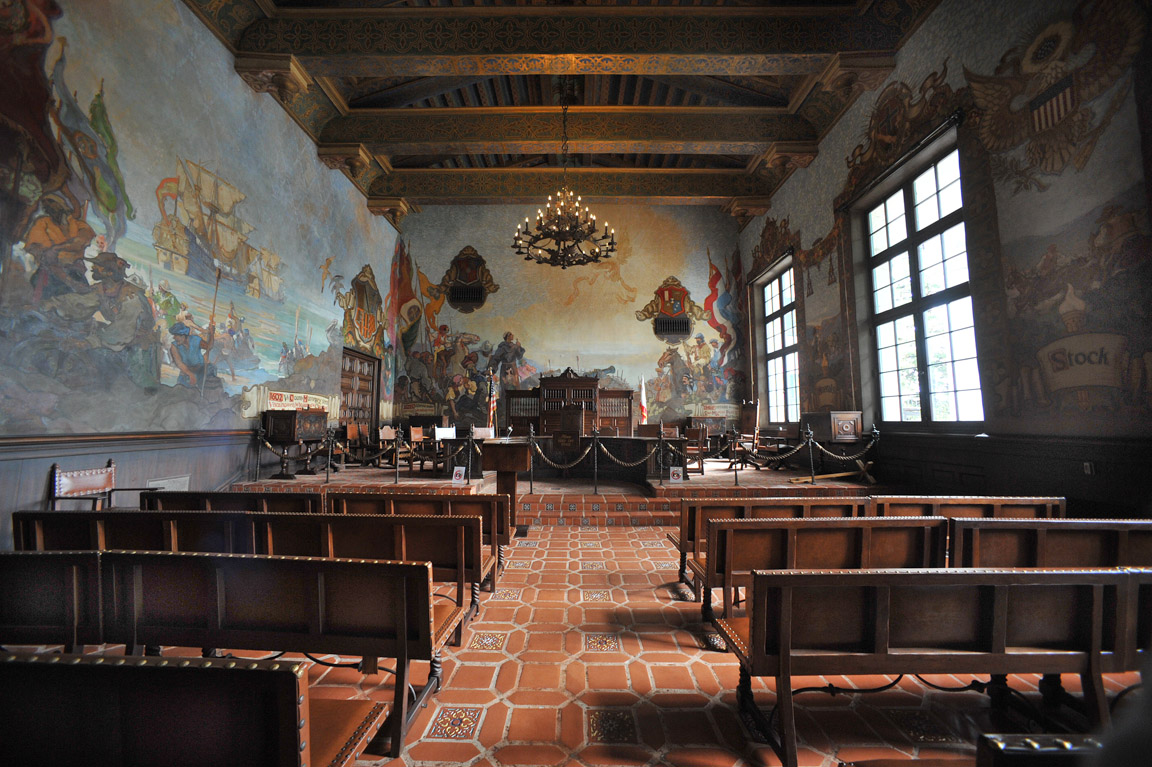 Interior view of the Santa Barbara Courthouse. — Attribution 2.0 license